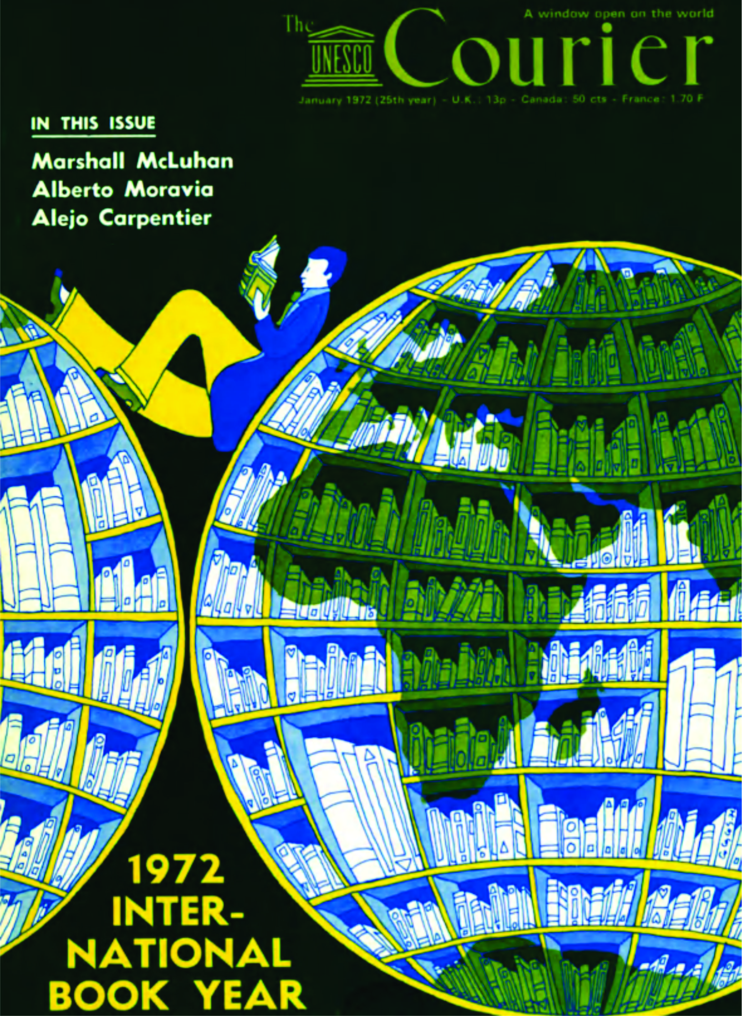 The UNESCO Courier (1972 International Book Year)